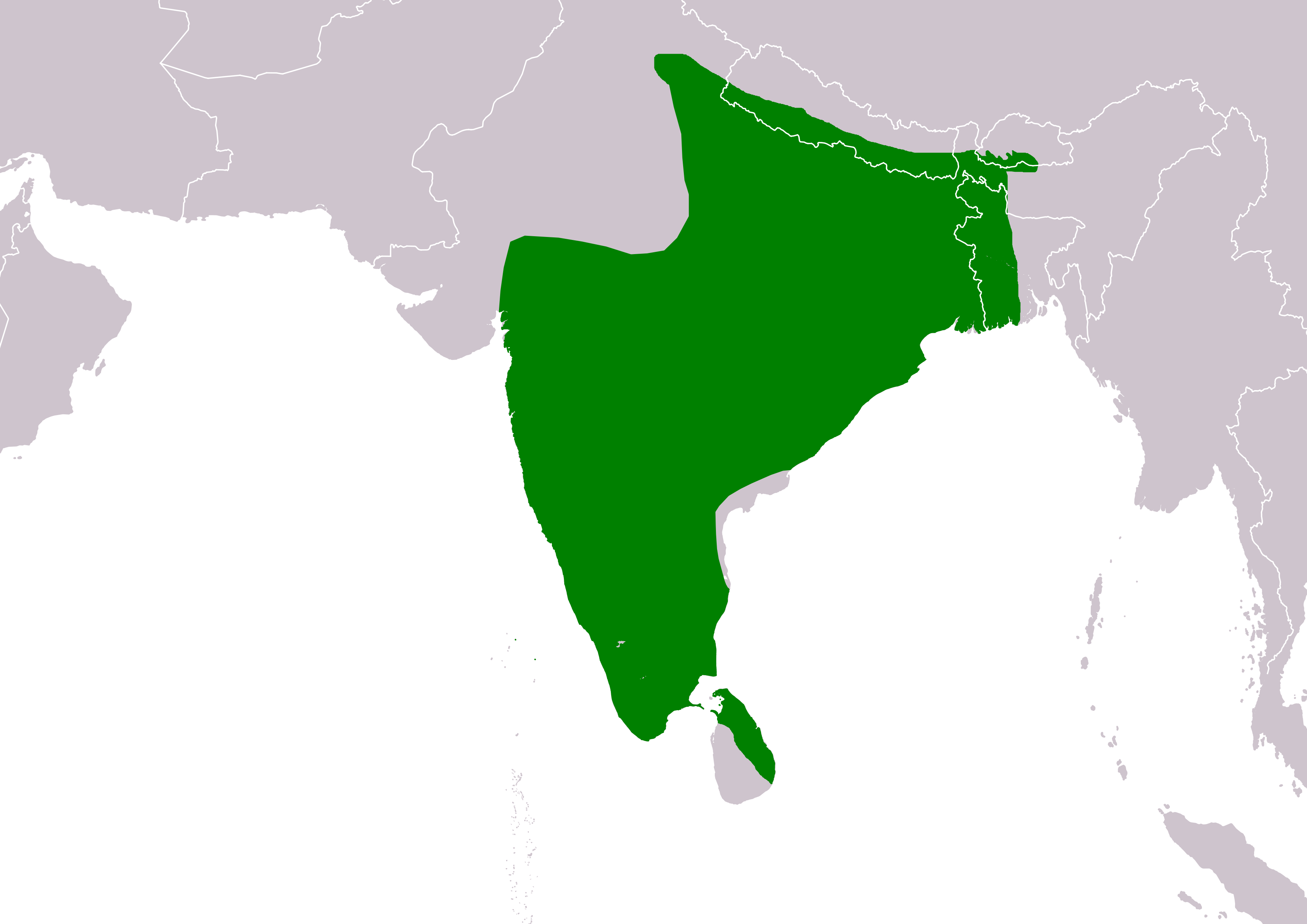 Map of jungle owlet (Glaucidium radiatum) according to IUCN 8.2., Legend: Extant, resident (#008000)